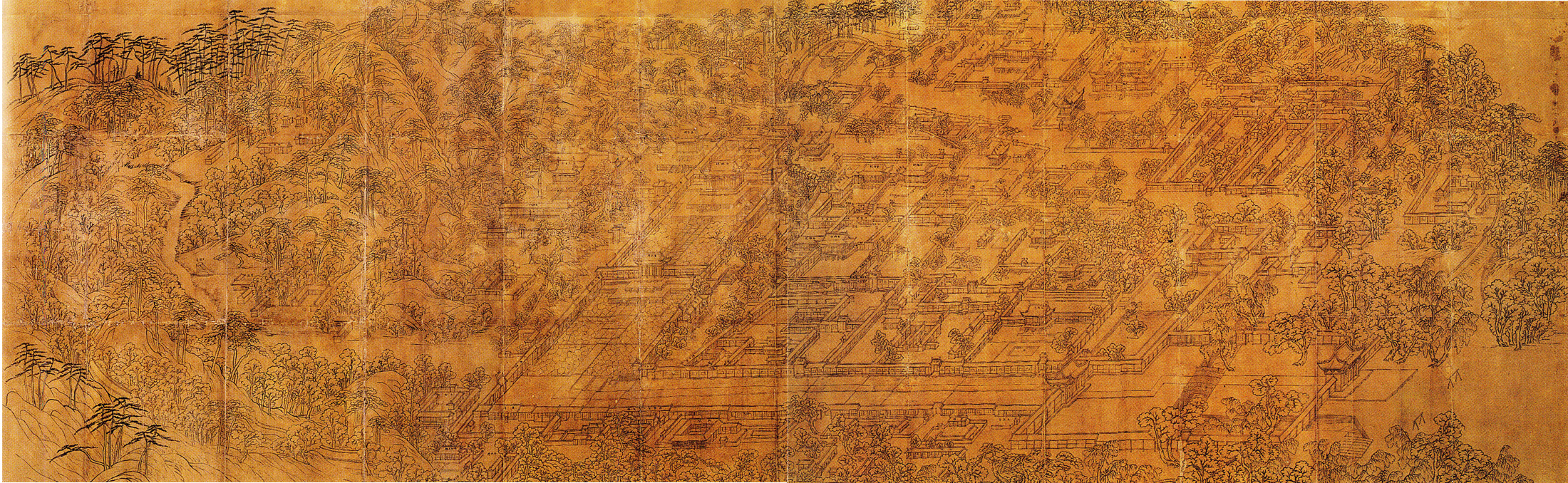 Seogwoldo